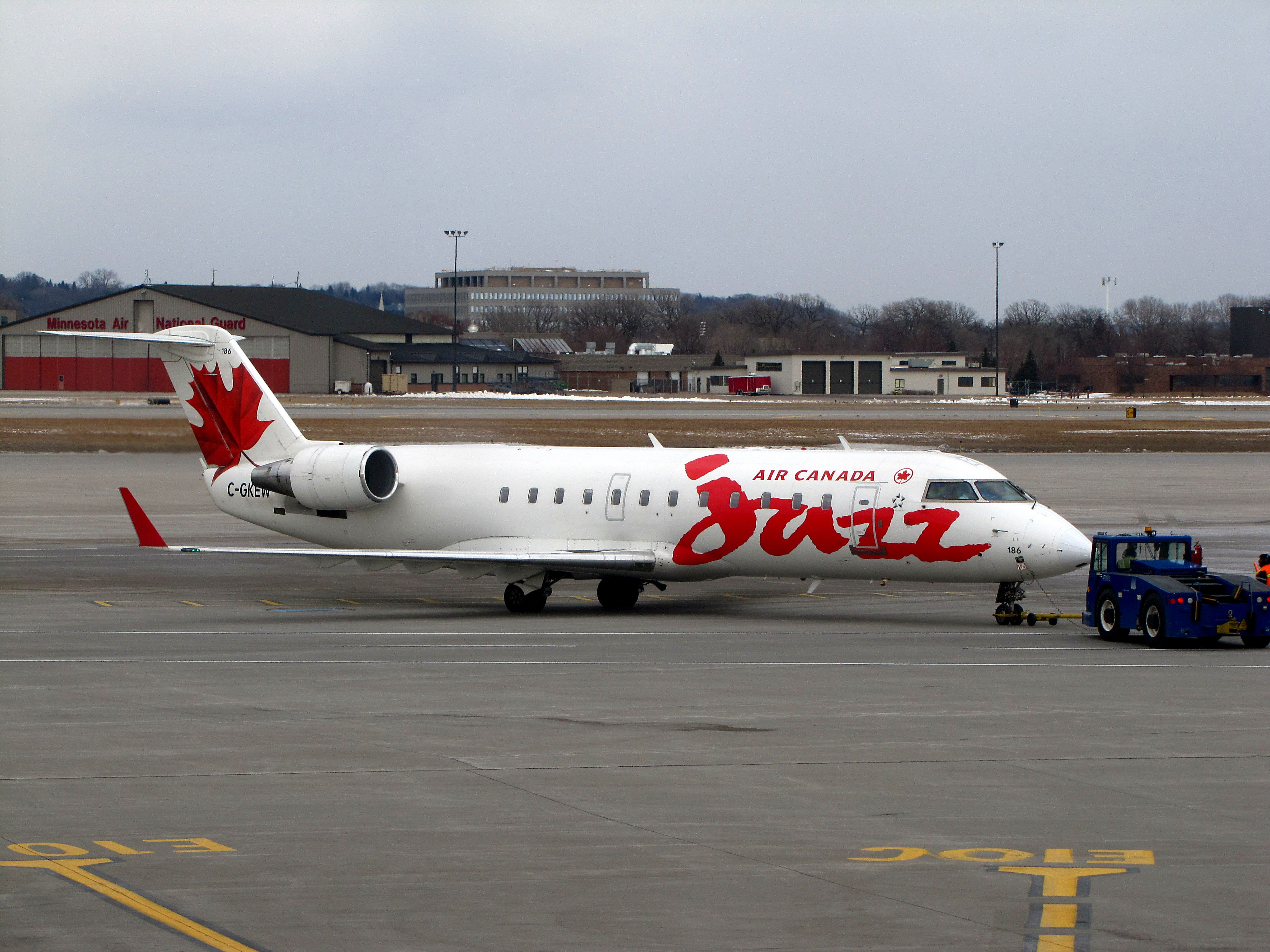 Jazz Bombardier CRJ-200 Minneapolis-Saint Paul International Airport